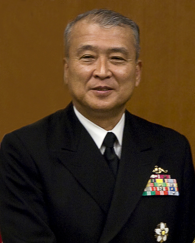 Japanese Chief of Defense Adm. Takashi Saito.